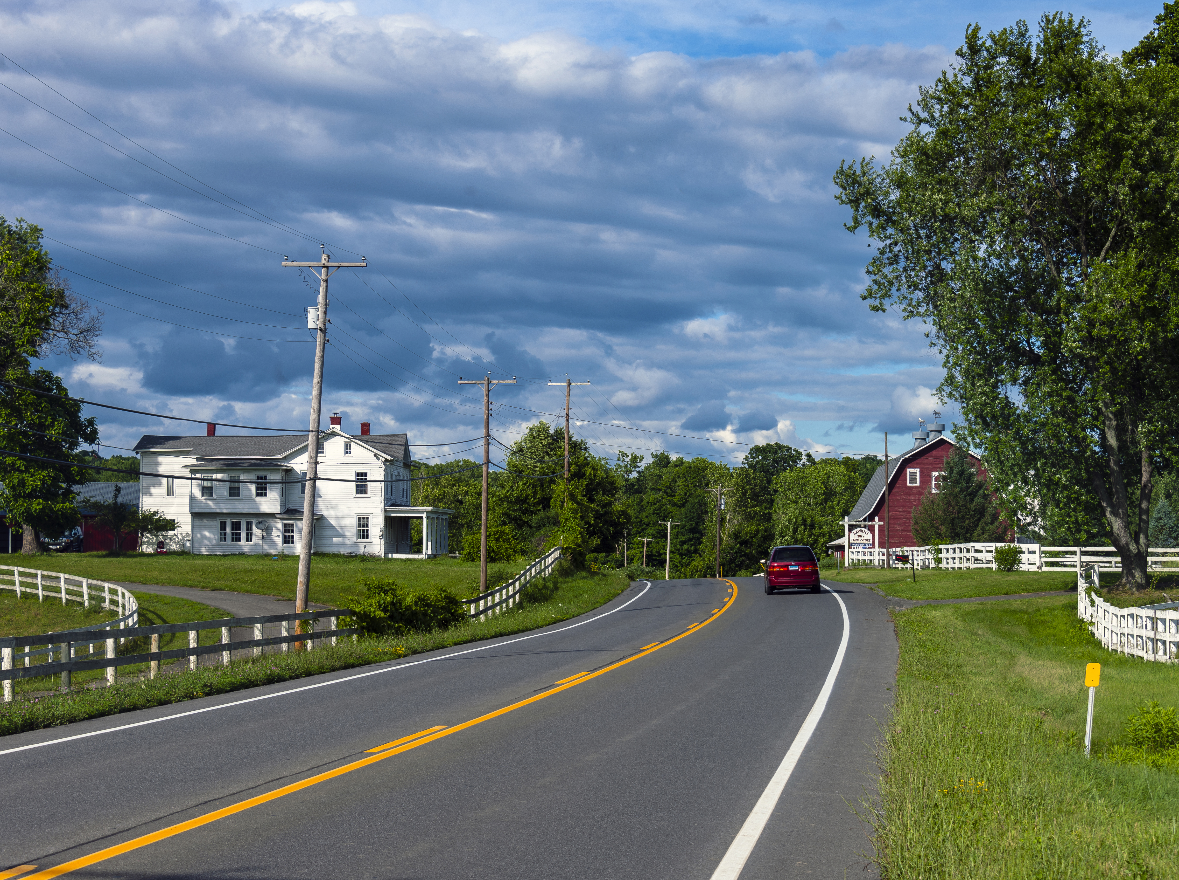 This image revisited, from the exact same spot along US 9 in Red Hook, NY, almost nine years afterwards, under fairly similar light and weather conditions. The only real difference is the barn signage, the removal of the trees behind the house and the addition of the fence along the left side of the road, due to a change in farm ownership.